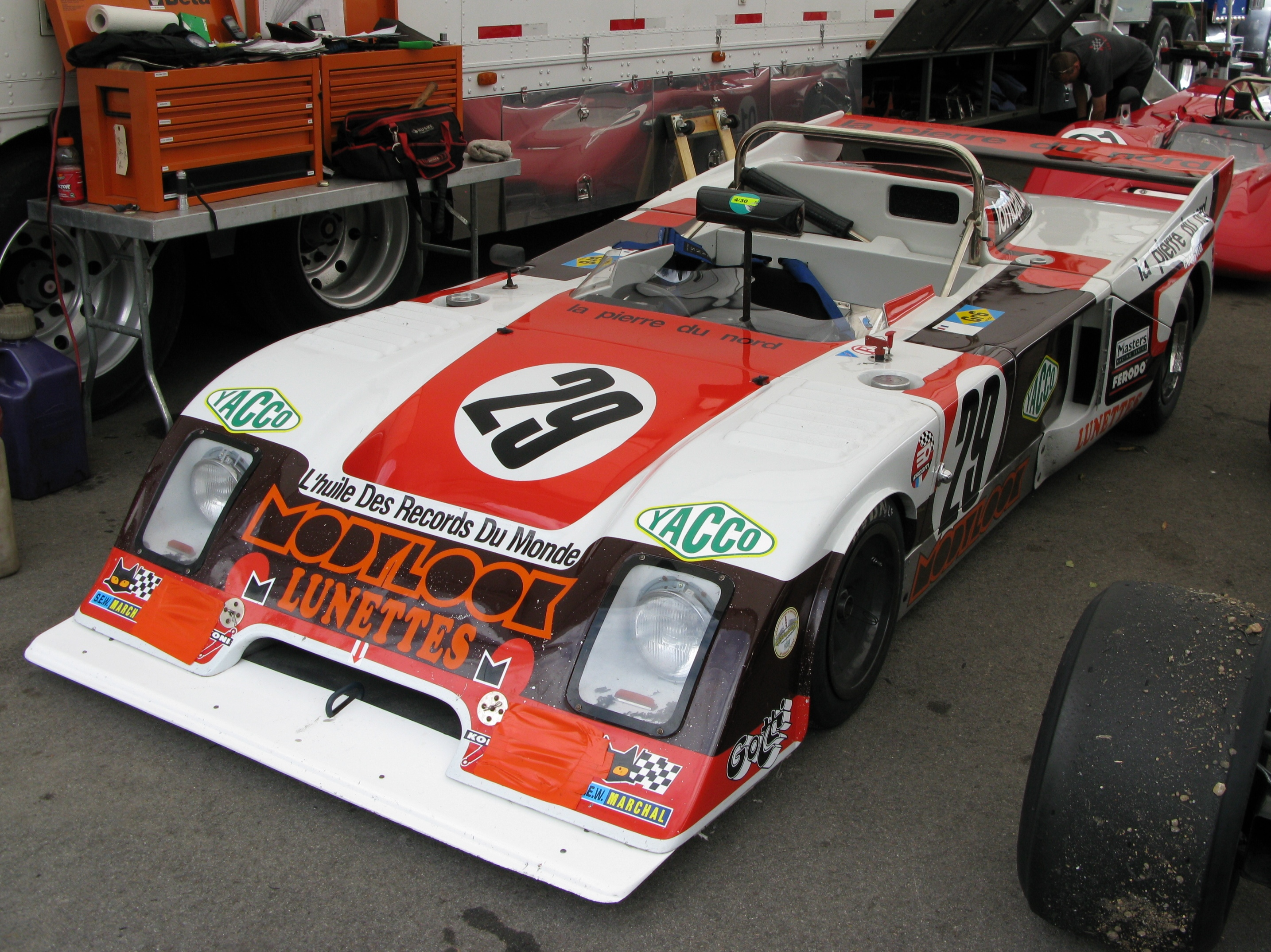 A Chevron B36 sports racing car, pictured in the paddock at the Sommet des Légends race meeting, Circuit Mont-Tremblant, Quebec, Canada. July 2009. The car ran in the 1978 24 Hours of Le Mans race, driven by Michel Dubois, Daniel Gache and Julien Sanchez (